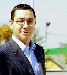 Victor Ponta's portrait, president of Social Democrat Party from Romania